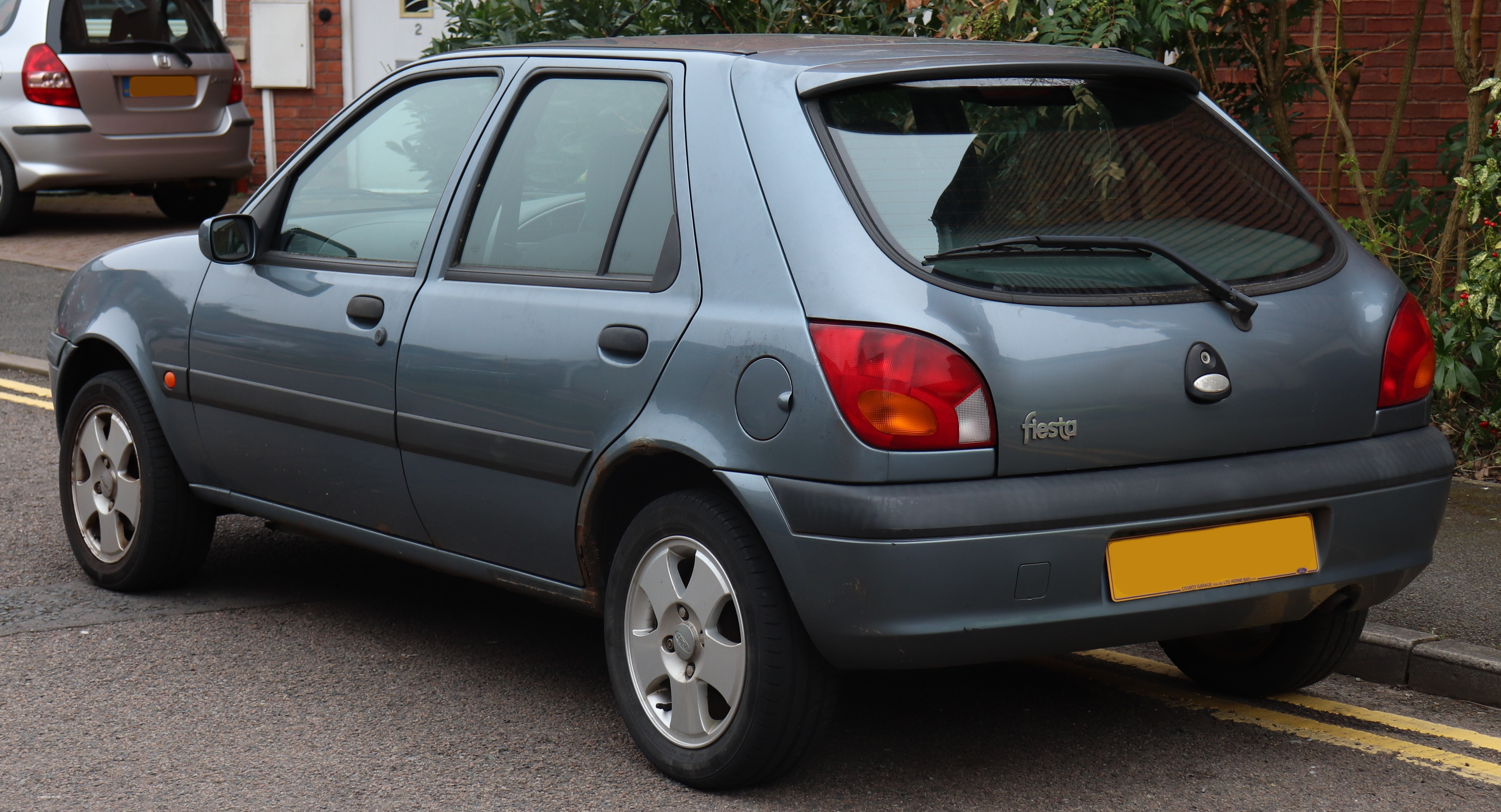 2001 Ford Fiesta Freestyle 1.2 Rear Taken in Warwick